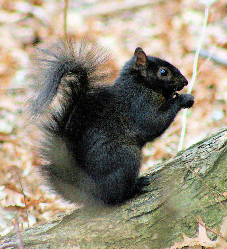 A black Squirrel.